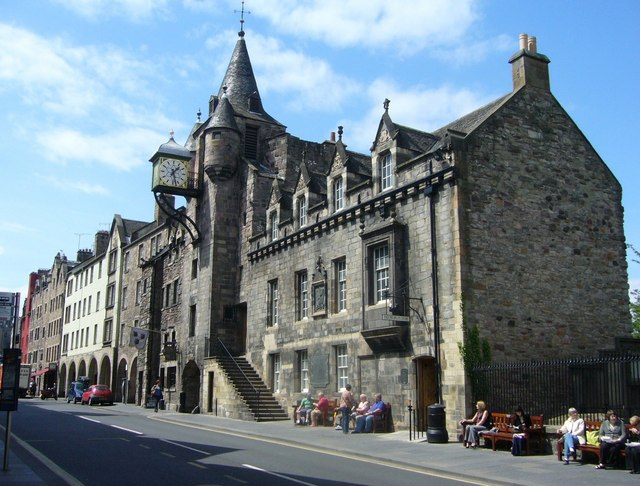 Founded by a charter granted by David I to the canons of Holyrood Abbey in 1143, the Canongate remained a separate burgh until its merger with Edinburgh in 1856. Its tolbooth served as a council meeting house, courthouse and prison. The present building, erected in 1591 (with Victorian embellishments), now serves as an extension to Huntly House, the city museum on the opposite side of the road.